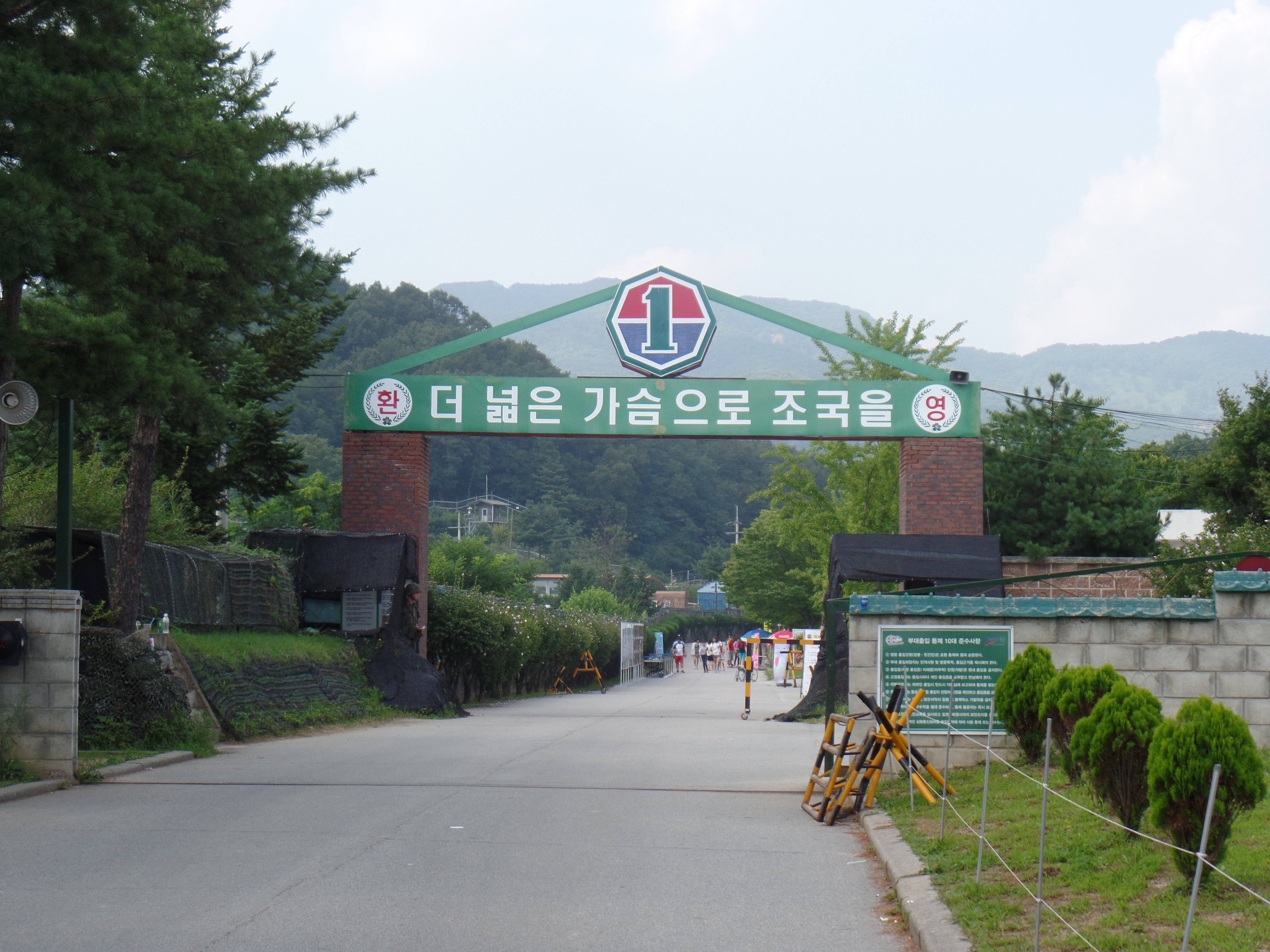 Main gate of Republic of Korea Army 102nd Replacement Battalion